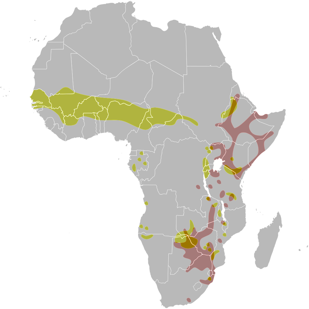 Approximate distribution of Red-billed Oxpecker. Adapted from: Handbook of the birds of the world, vol. 14: Bush-shrikes to old sparrows. 2009. Josep del Hoyo, Andrew Elliott, Jordi Sargatal, eds. Lynx Edicions, Barcelona, 839p. (ISBN 9788496553507). Approximate distribution of Yellow-billed Oxpecker. Adapted from: Handbook of the birds of the world, vol. 14: Bush-shrikes to old sparrows. 2009. Josep del Hoyo, Andrew Elliott, Jordi Sargatal, eds. Lynx Edicions, Barcelona, 839p. (ISBN 9788496553507).